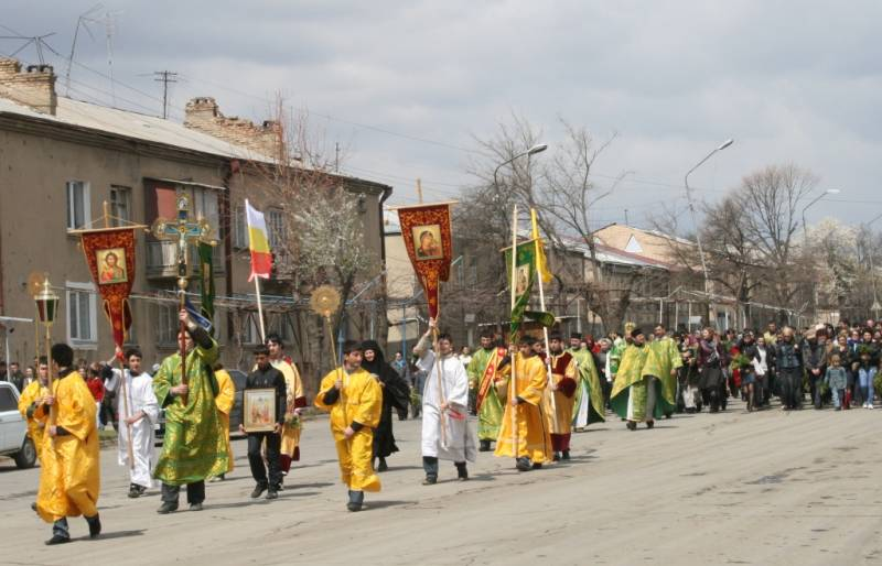 Palm Sunday procession in Tskhinvali in April, 2009.